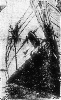 A close up of the San Pedro's bow, damaged after the fatal collision with the SS Columbia in 1907.